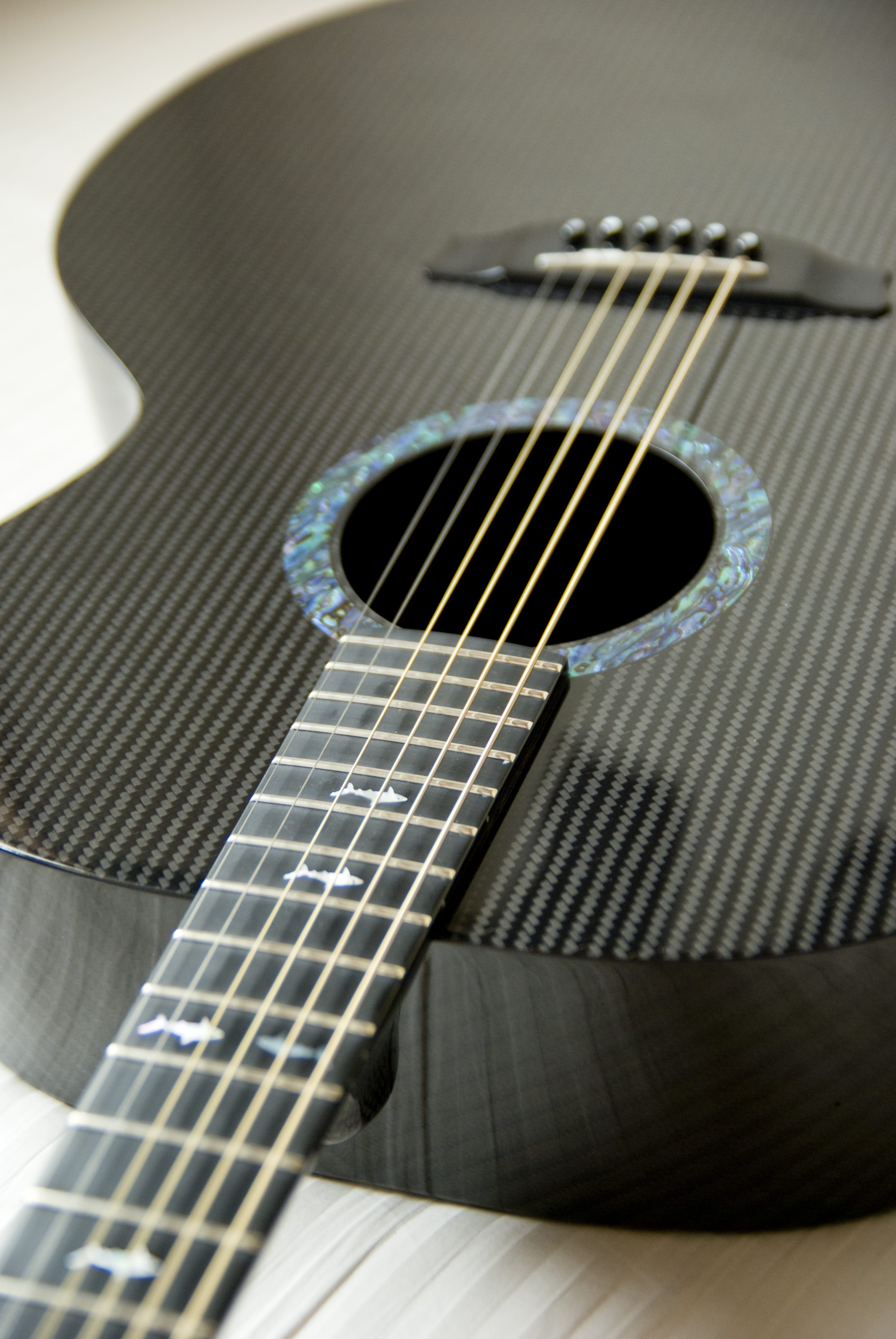 RainSong JM-1000 oh yes, i have another guitar, my 20 year-long buddy -- Guild D-30, but i couldn't resist buying this carbon fiber based one, RainSong JM-1000: one of the toughest guitar on this planet. actually, i always wanted to have 'jumbo' body since my Guild is D-body (dreadnought), and I wanted to enjoy different tone now and then. but there hadn't been any chance or i couldn't put it in action until last week. sorry about to mention this because i know there is some people suffering from it, but thanks to exchange rate between dollar and yen, the price of this guitar was suddenly dropped dramatically (a store clerk explained); the praice moved me. anyway, now i'm pretty satisfied with this new-buddy. tone and note is better than i expected, and the direct response which i'd been told is certainly it is. and i no longer need to worry about Japan's hot-humid air in summer and cool-dried air in winter. the only minor concern is 'trace rod less' design. i don't know it is okay in long period with strings' tension. if the neck would bend. i cannot adjust it. i hope it stronger than the tension.